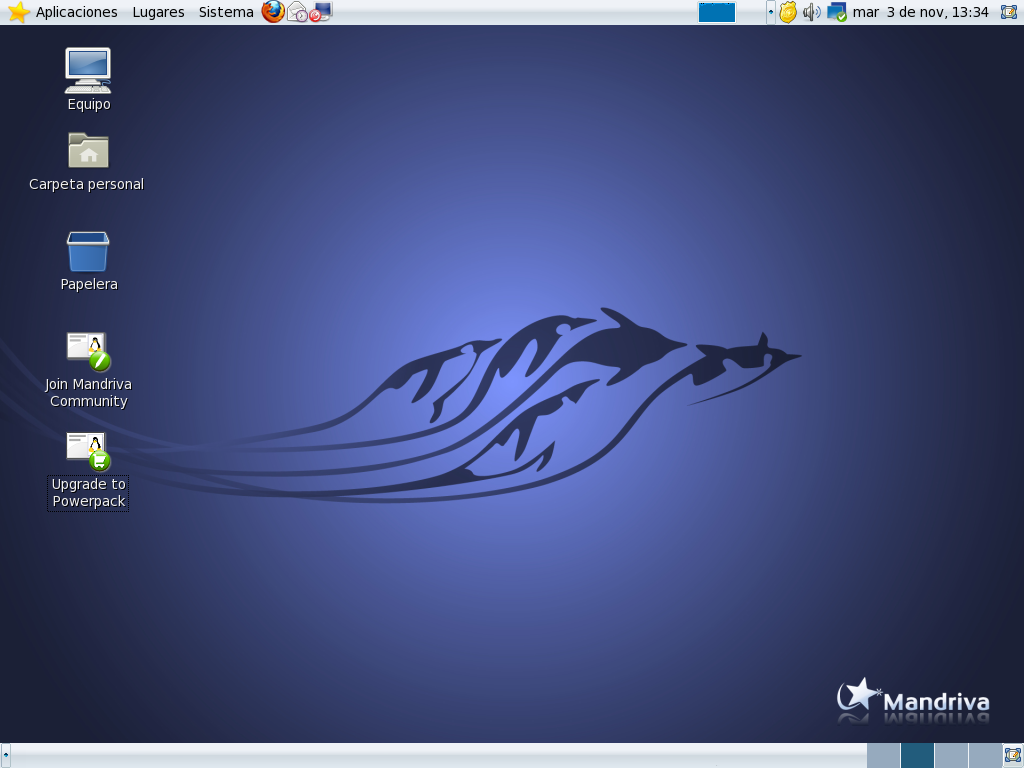 yo autorizo a cualquiera esta toma de escritorio.